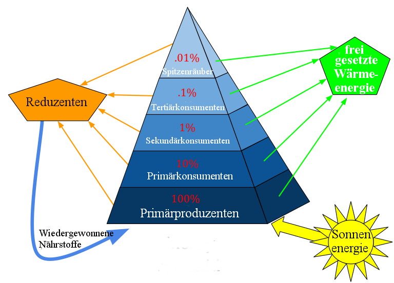 Das Modell der Trophiestufen zeigt die Energieverteilung im Nahrungsnetz eines Ökosystems. Die Sonnenenergie wandert entlang der verschiedenen trophischen Stufen durch das Ökosystem. Ungefähr 10 Prozent der Energie wandert von einer Trophiestufe zur nächsten. An der Basis der Pyramide müssen große Mengen von Biomasse vorhanden sein, um die Energie- und Biomasse-Bedarfe der höheren Stufen zu decken.